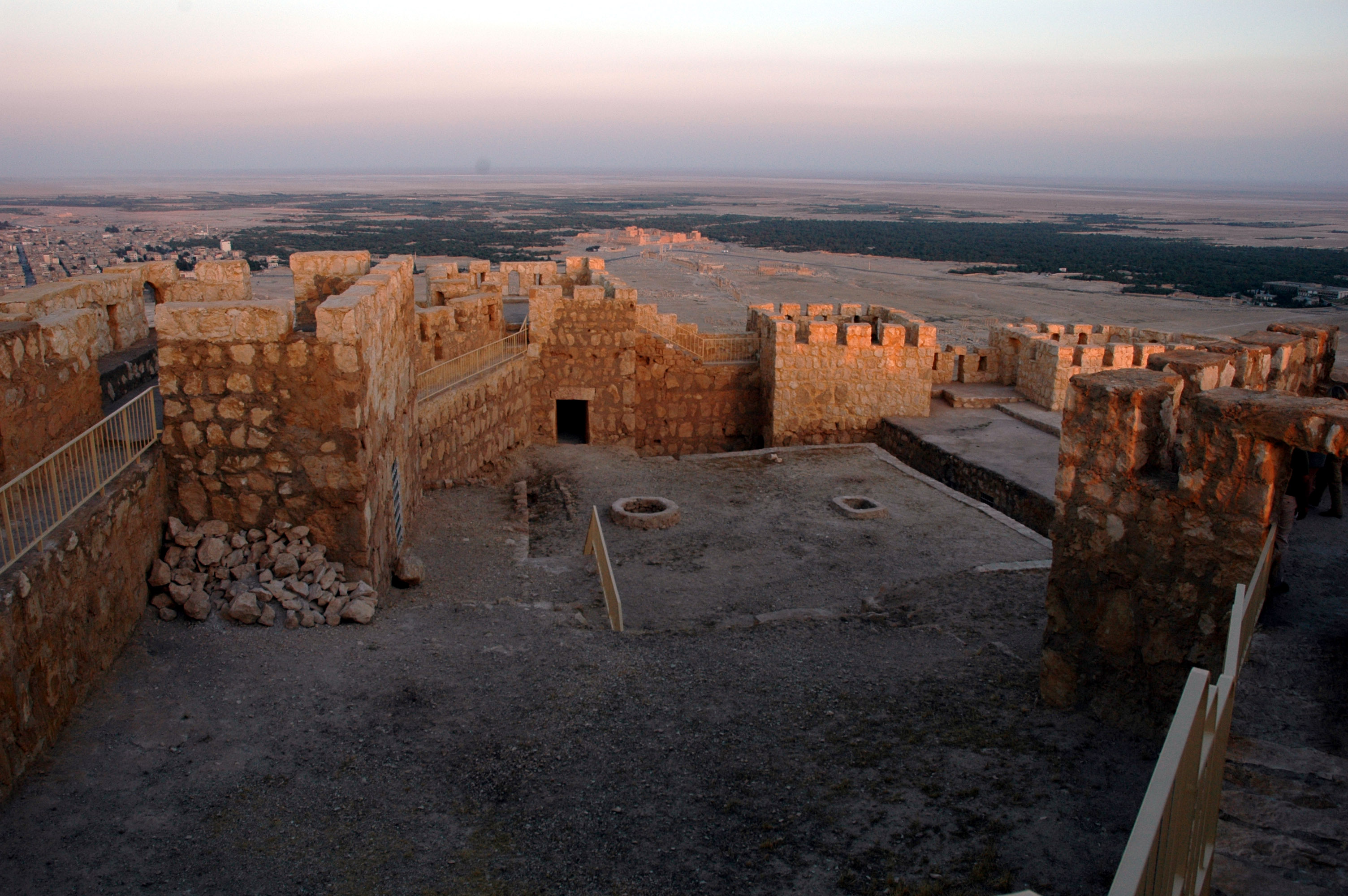 Castle Ibn Ma'an, Palmyra in 2004